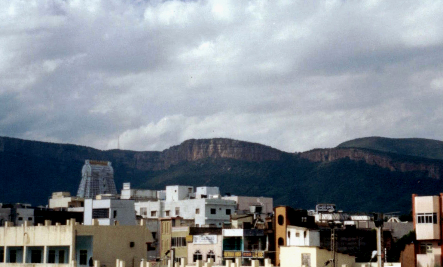 Tirupathi City and Tirumala Hills View from Tirupathi Railway station